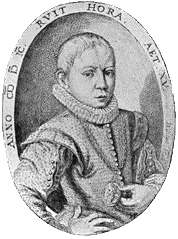 Sketch of Hugo Grotius in 1599, at age 15.